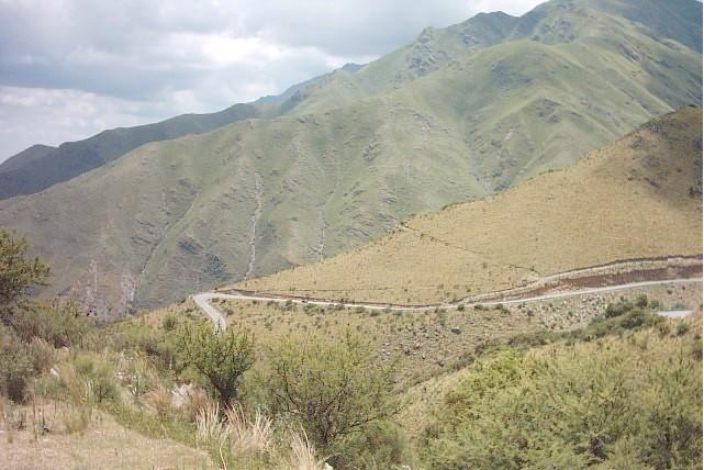 El Valle de Conlara se encuentra entre las sierras de Comechingones, al este, y las sierras de San Luis, al centro-oeste en Argentina. Pertenece a la provincia de San Luis. Los pueblos del Valle de Conlara fueron establecidos en territorios comechingones desde la época de la Colonia, entre mediados de siglo XVI y fines de siglo XVIII para sentar los límites entre las jurisdicciones del Cuyo y de Córdoba del Tucumán, así surgieron Santa Rosa de Conlara y luego Merlo y Tilisarao. El Valle de Conlara (conlara parece haber significado "Valle Hermoso" en idioma comechingón) fue el límite oriental del Cuyo. Como muchos pueblos y caseríos establecidos por los españoles en el centro de Argentina, estas poblaciones de gauchos fueron hostigadas por malones de pueblos indígenas como los de los ranqueles -(V.:puelches y otras parcialidades influenciadas por los mapuche). El límite sur del Valle de Conlara es la Sierra del Morro, cuyo lugar, alberga leyendas y una misteriosa laguna.